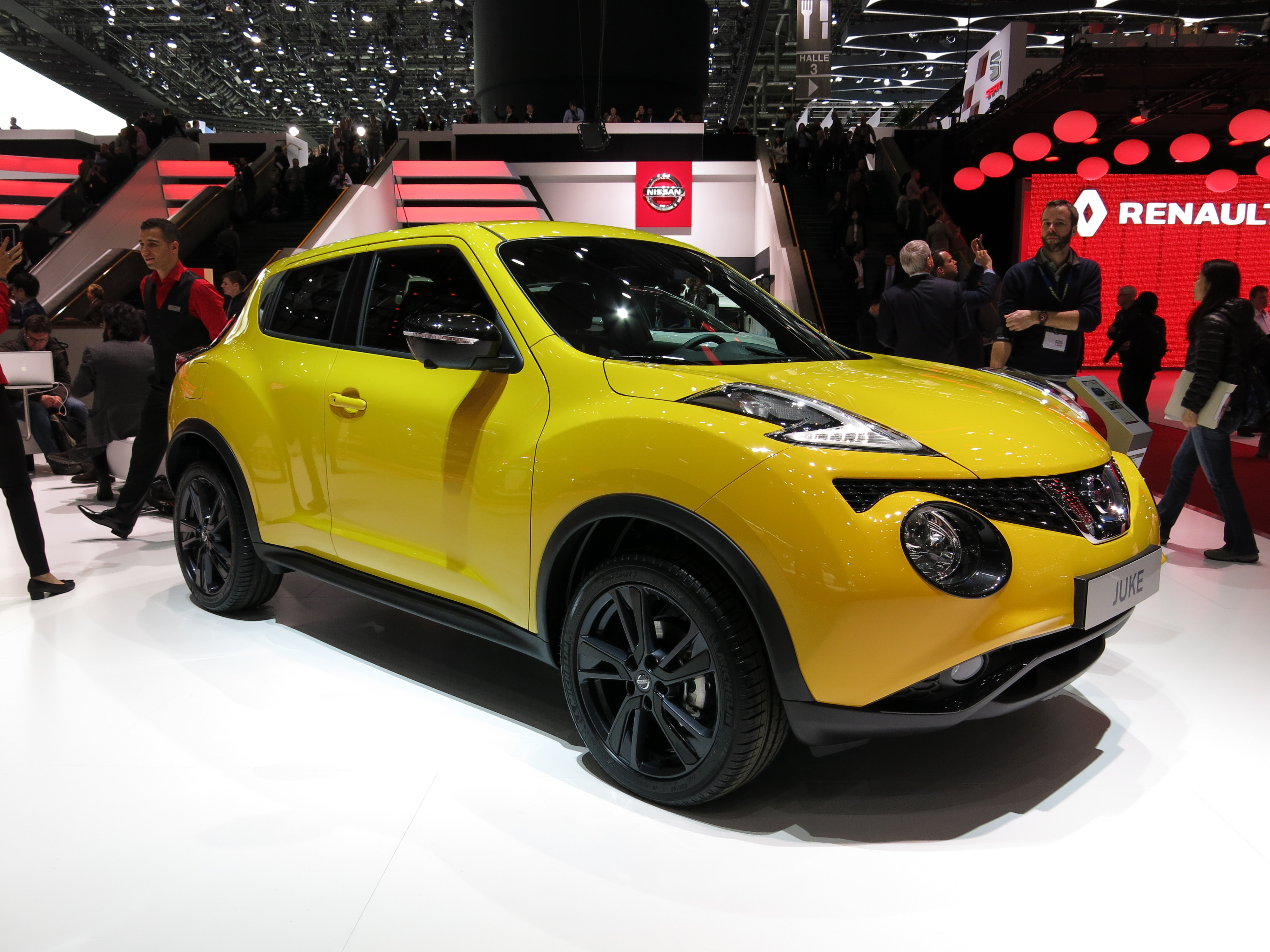 Geneva Motor Show 2015 (photo taken on the first press day)